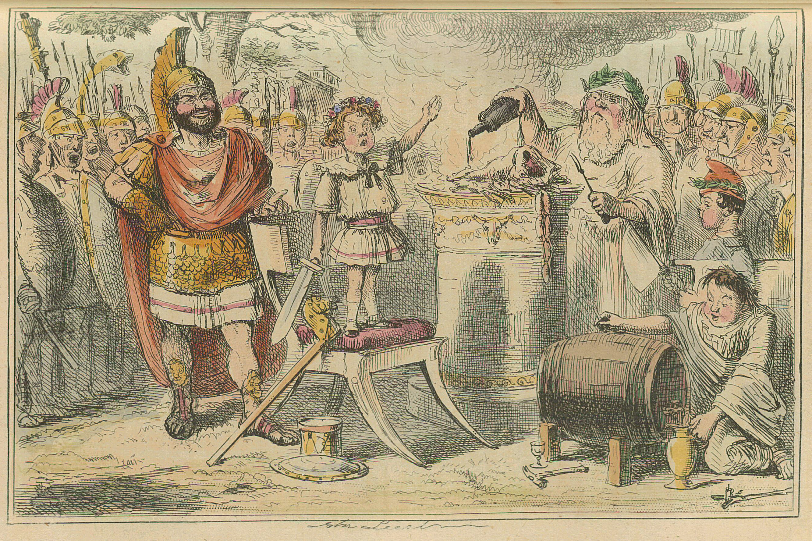 Image by John Leech, from: The Comic History of Rome by Gilbert Abbott A Beckett. Bradbury, Evans & Co, London, 1850s Hannibal, whilst even yet a child, swears eternal hatred to the Romans